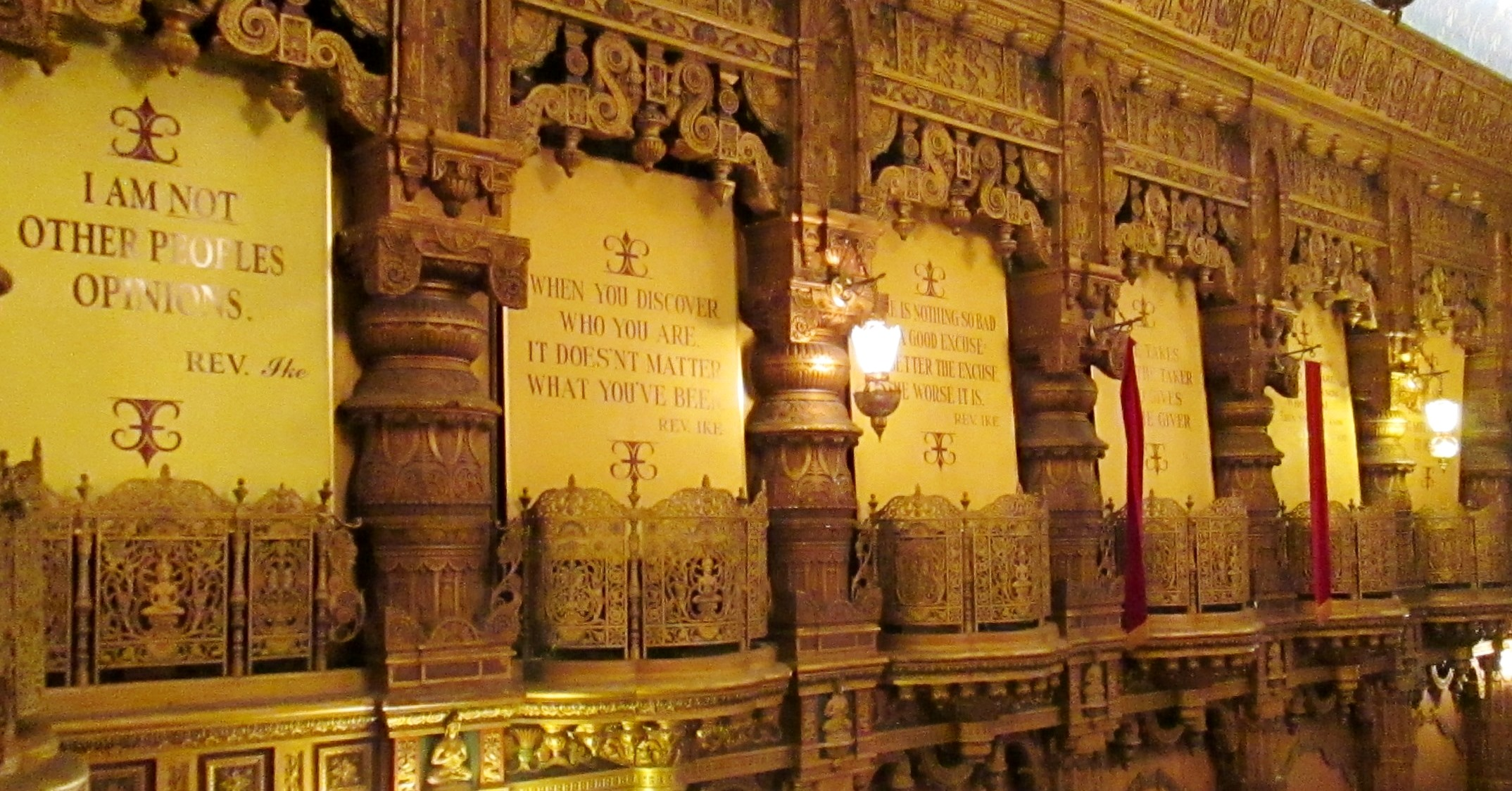 The United Palace is a former movie and vaudeville theatre now used as a church and live music venue, located at 4140 Broadway between West 175th and 176th Streets in the Washington Heights neighborhood of Manhattan. New York City. It was built and opened in 1930 as the Loew's 175th Street Theatre, a movie palace, and was designed by Thomas W. Lamb in an eclectic mix of styles. It was purchased in 1969 by evangelist "Reverend Ike" to be the headquarters for his United Church Science of Living Institute. The historic theatre, renamed the Palace Cathedral was restored by the church.